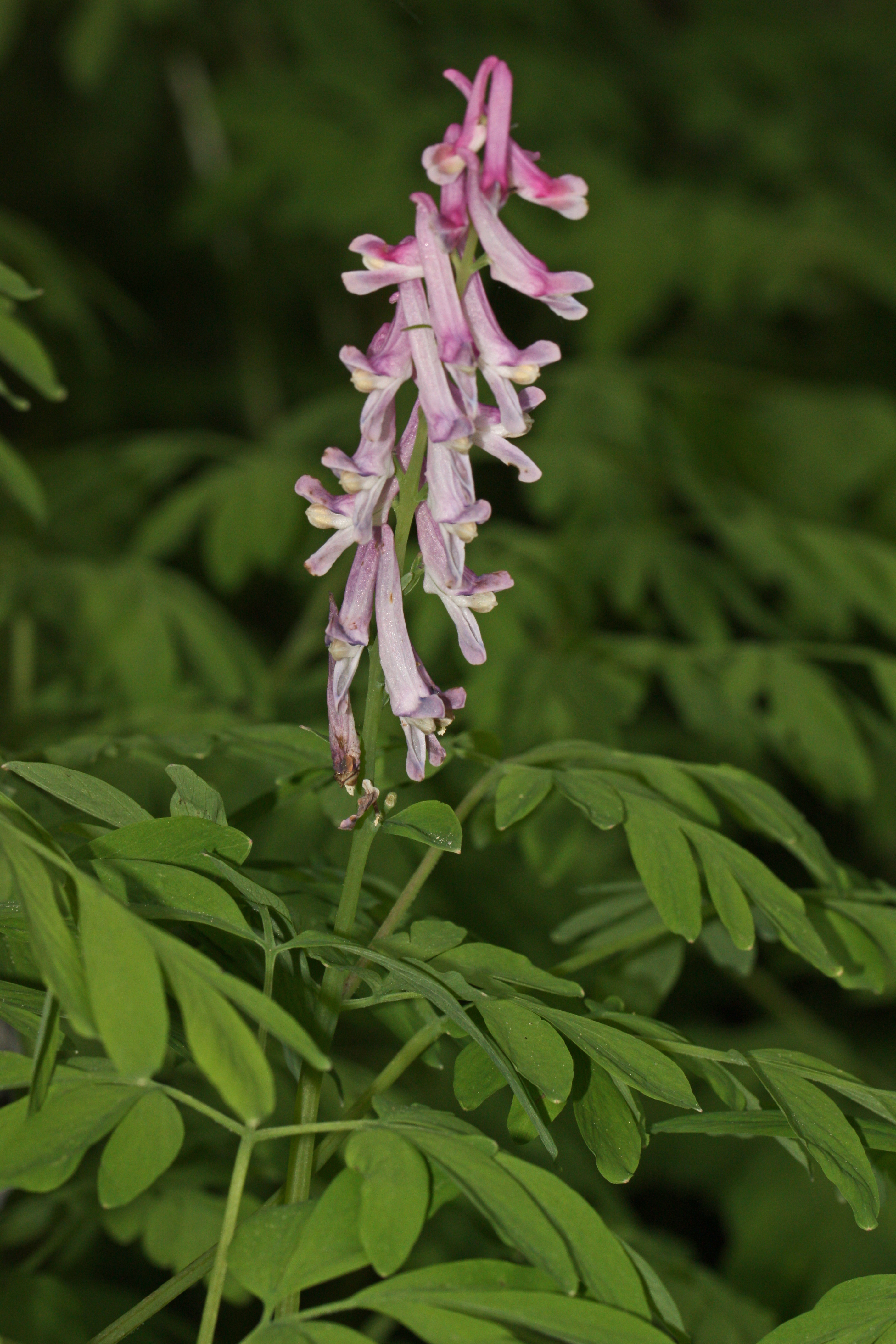 Scouler's Fumewort